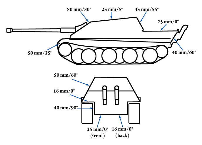 Jagdpanther armour scheme.